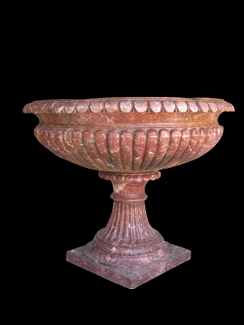 Labrum in Cottanello antico, II-III sec. d.C. (Collezione M – collezione privata)